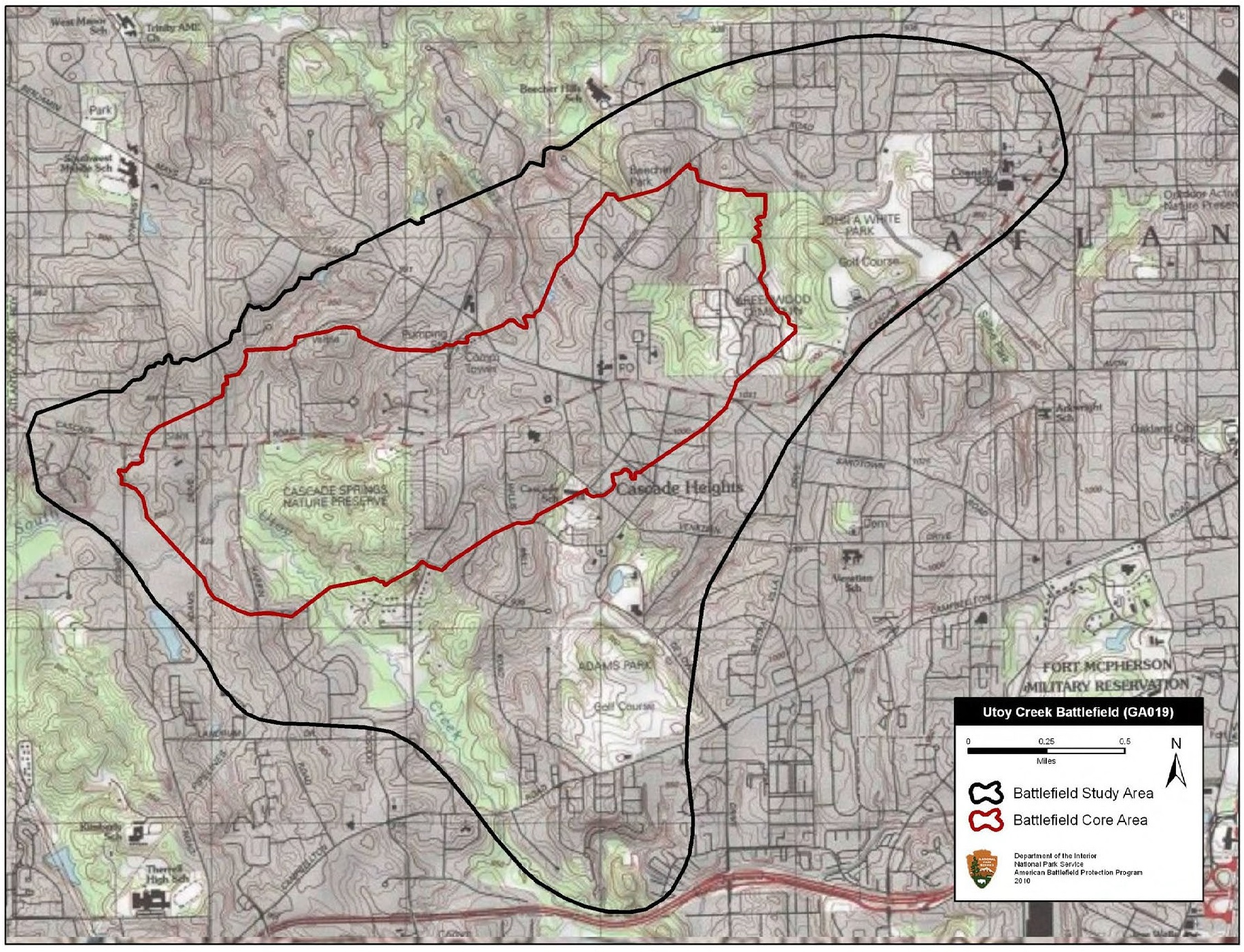 Map of battlefield core and study areas. The ABPP expanded the 1993 Core Area to the northeast to include the entire Union and Confederate lines of battle and artillery positions along Utoy Creek. The Study Area was adjusted to accommodate the revised Core Area and to conform to the physical constraints of the historic landscape.